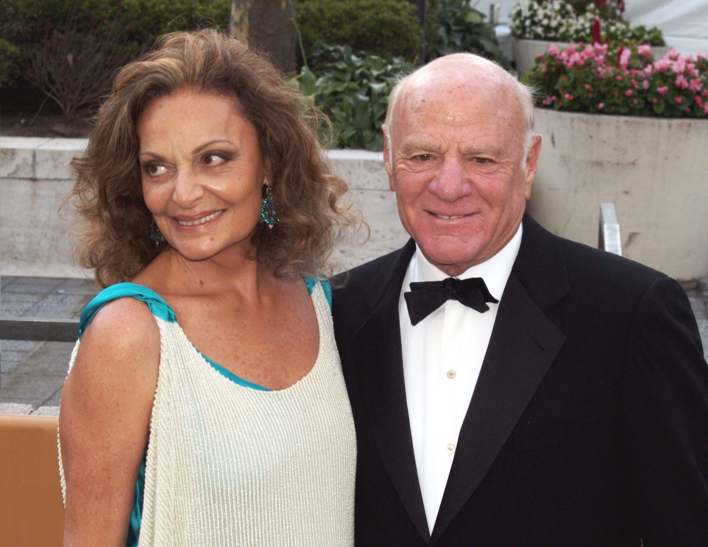 Diane von Furstenberg and Barry Diller at the 2009 premiere of the Metropolitan Opera in New York City. Photographer's blog post about event and photograph.